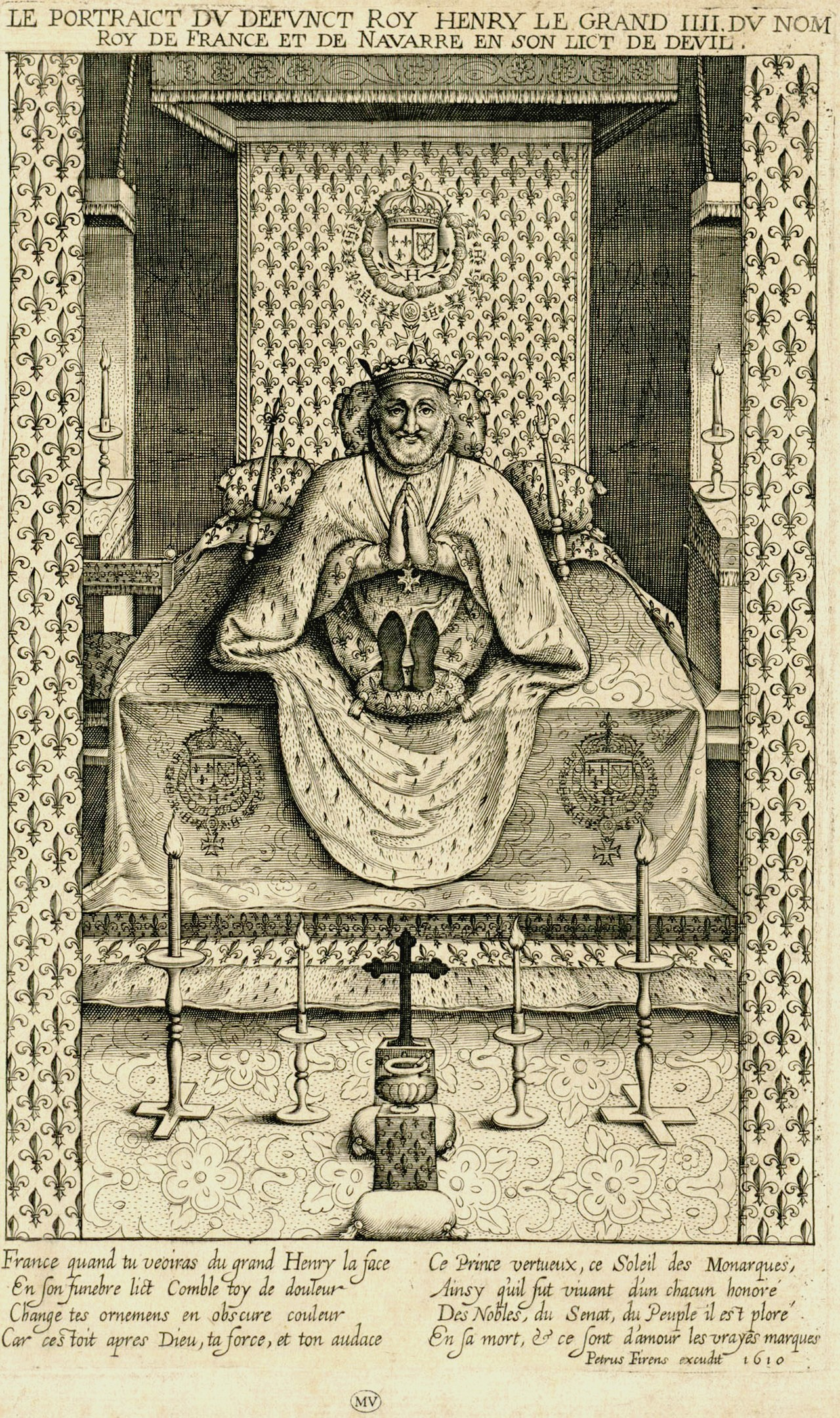 Portrait of the Deceased King Henry the Great IV in His Deathbed. "Le Roi Est Mort continues at the Palace of Versailles (Avenue Rockefeller at Avenue de Paris, Versailles, France) through February 21". Château de Versailles.